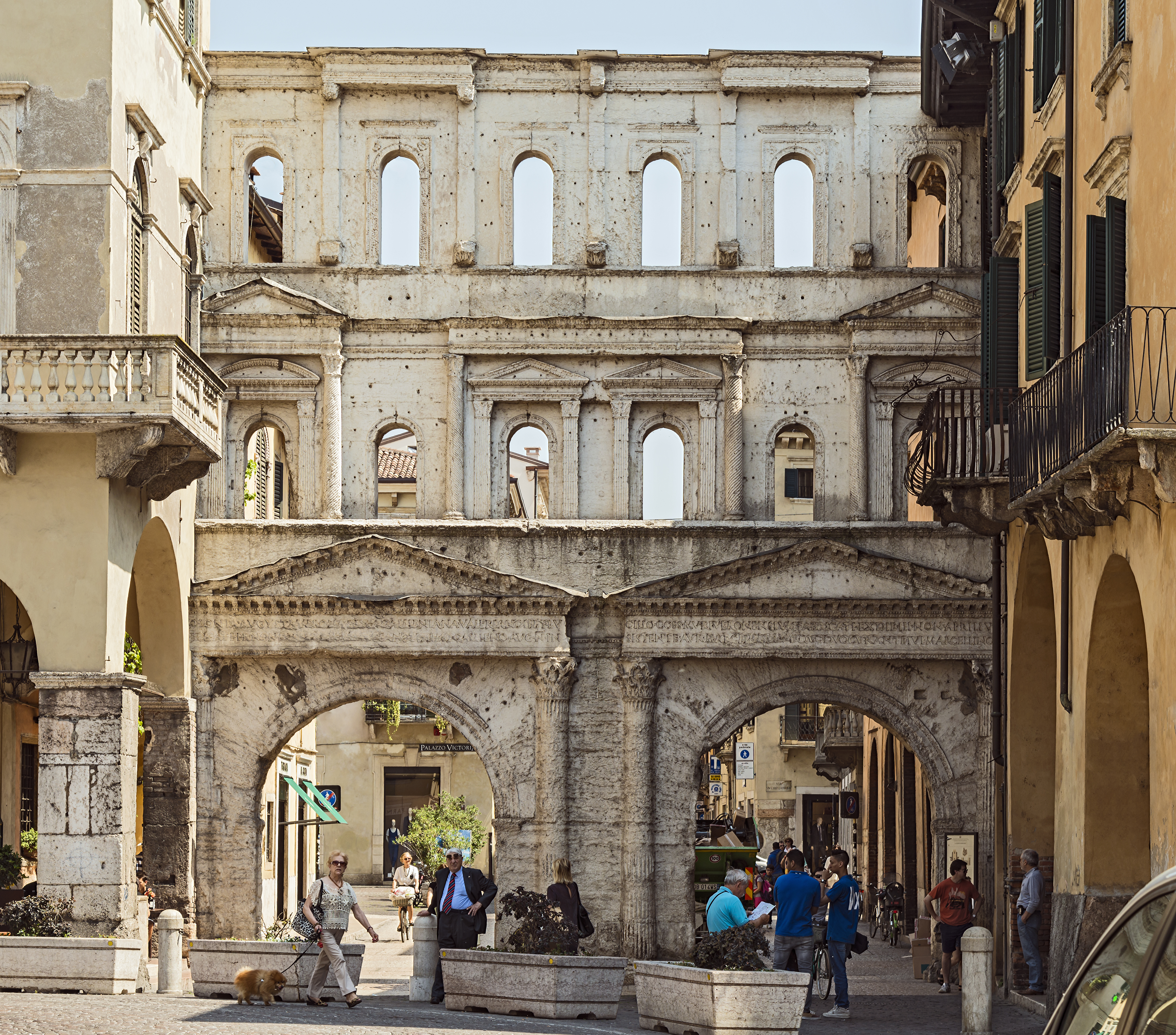 Porta Borsari in Verona. Face on Corso Cavour